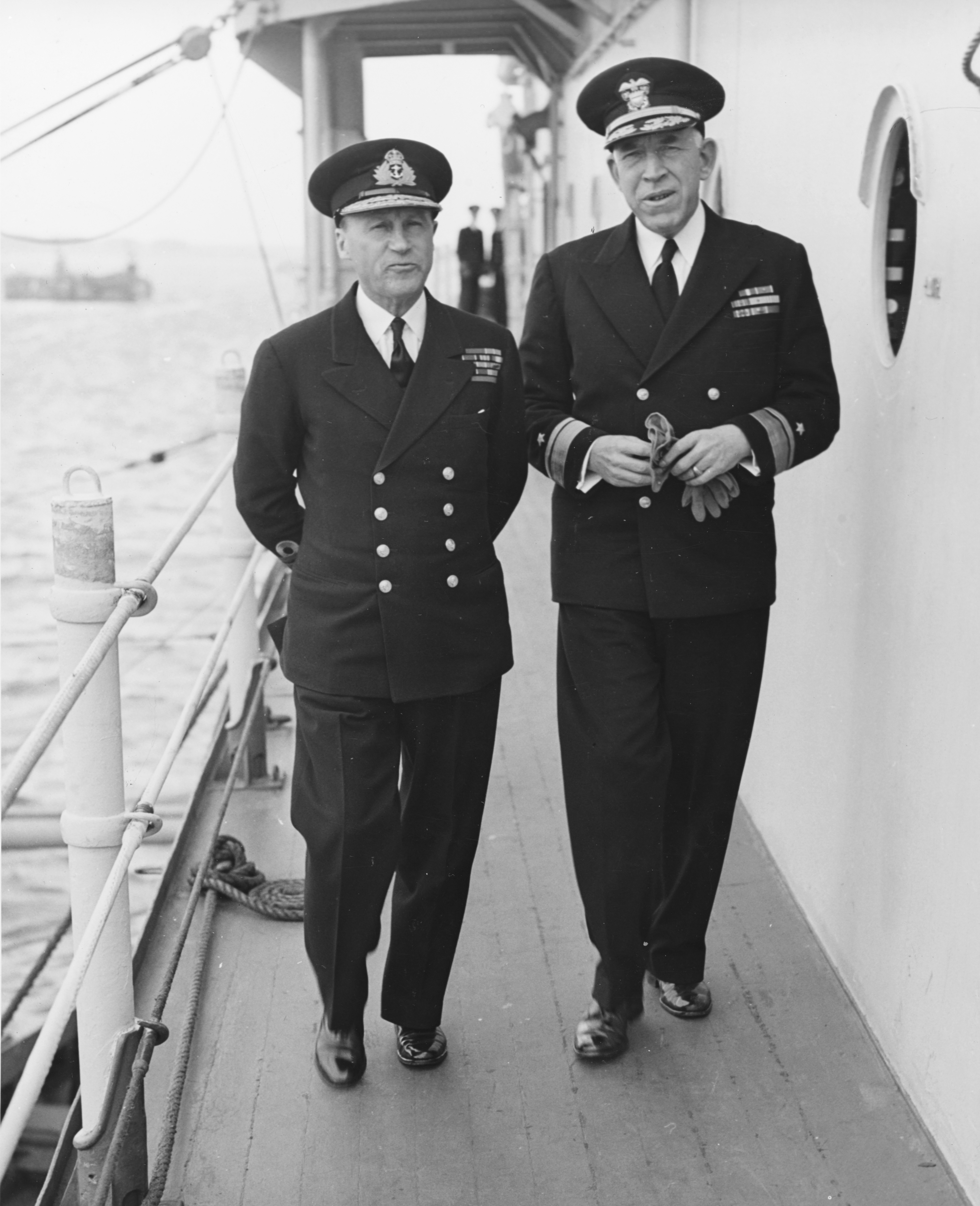 Admiral Sir Bertram Ramsay, Royal Navy (left), Naval commander of the Normandy operation with Rear Admiral John L. Hall, Jr., USN (right), Commander Task Force 124, the "Omaha" Beach Assault Force on board the U.S. Navy amphibious command ship USS Ancon (AGC-4) on 25 May 1944, as preparations were underway for the invasion of France.